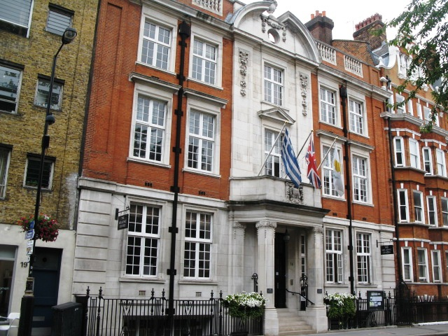 The Hellenic Centre, Paddington Street, W1